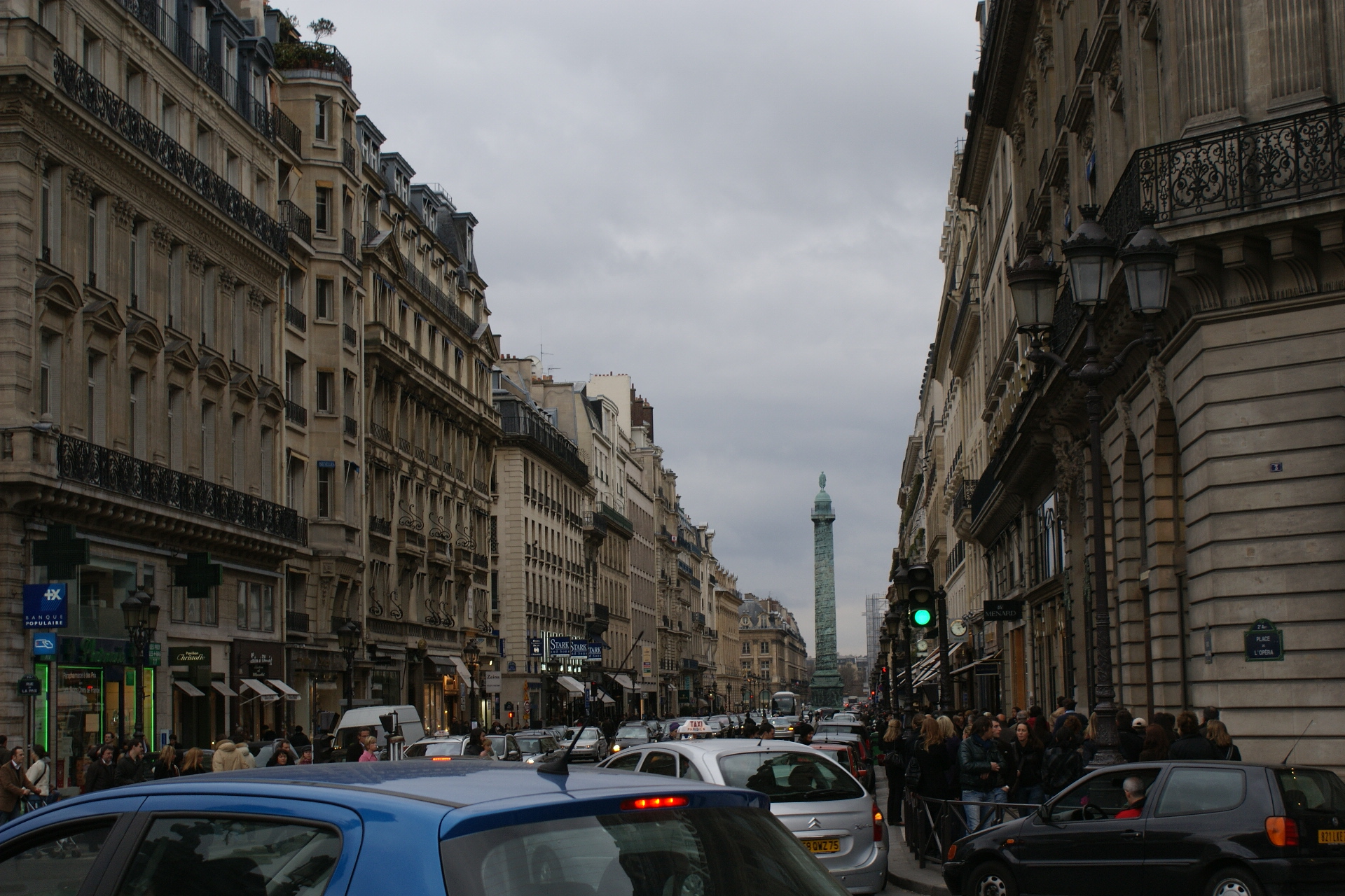 Rue de La Paix from Place de l'Opéra.